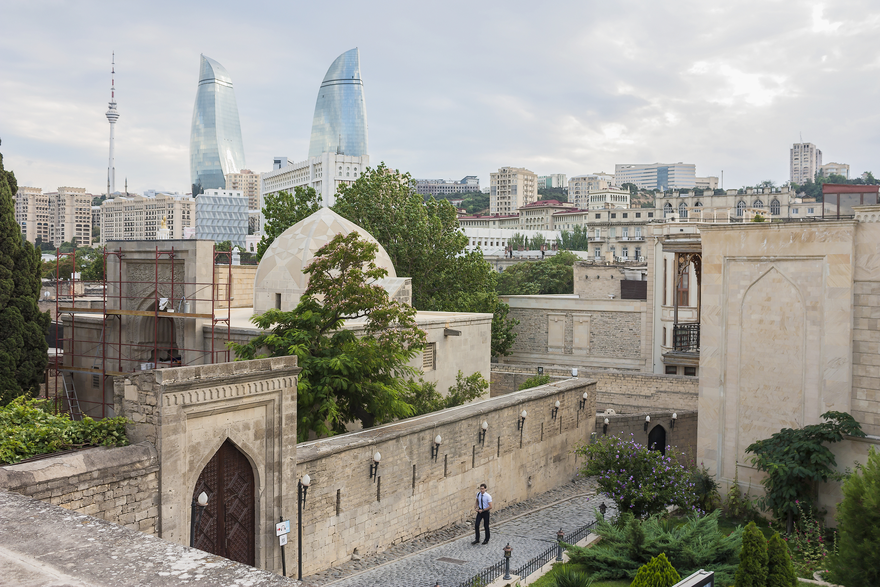 Mosque in the Palace of the Shirvanshahs "old city" architecture and urban development